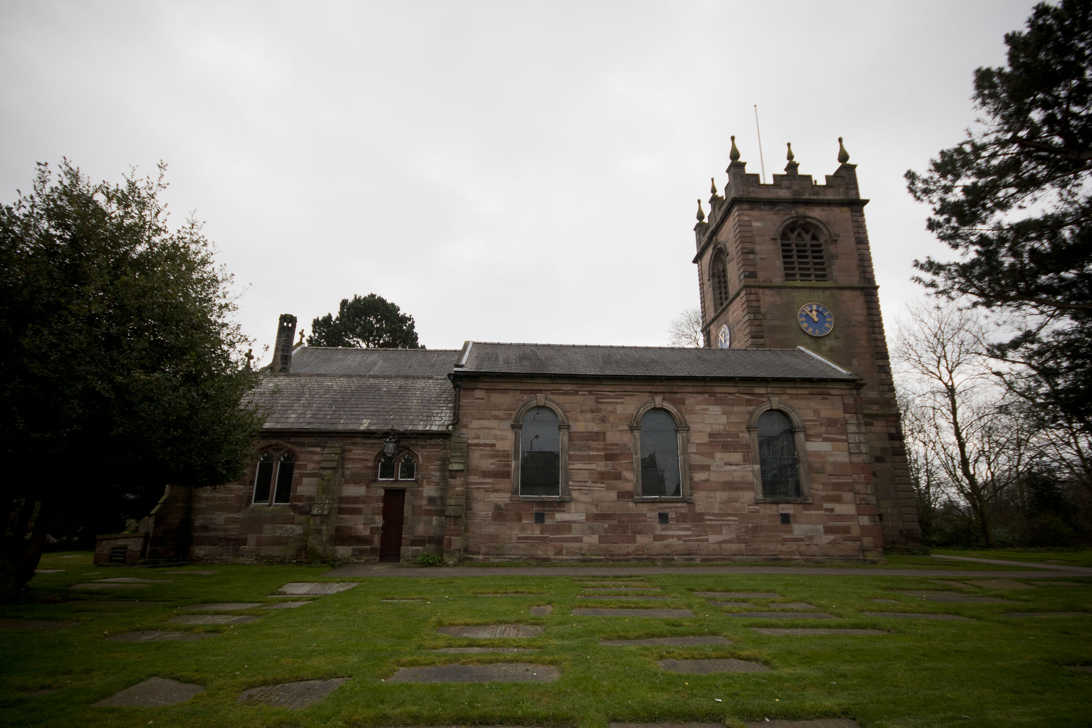 Located in Flixton Village, Church Road.